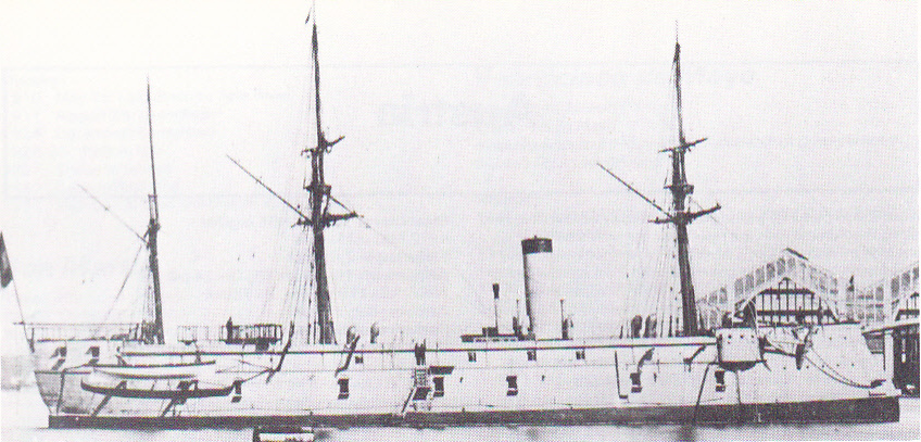 Austrian Ironclad Drache, launched in 1861, serving until 1875.